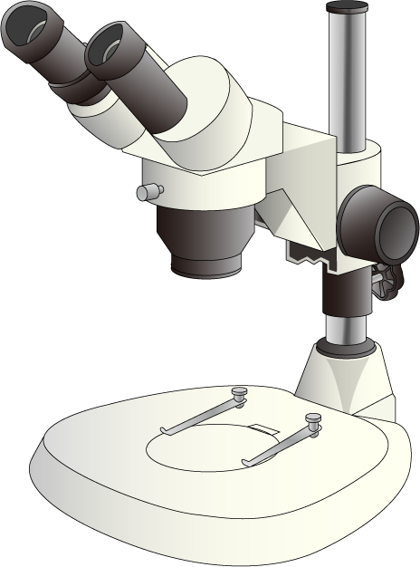 Stereomicroscope. Images are from Togo picture gallery maintained by Database Center for Life Science (DBCLS).